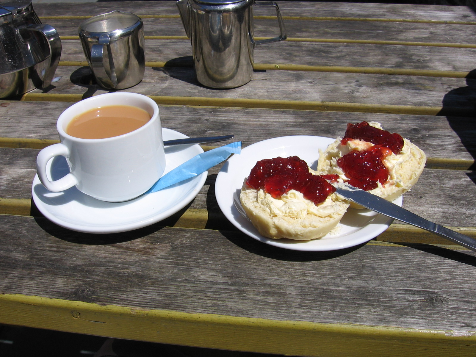 Cornish cream tea in Boscastle, although prepared in the Devonshire Method. Licensing Editor's own creation.